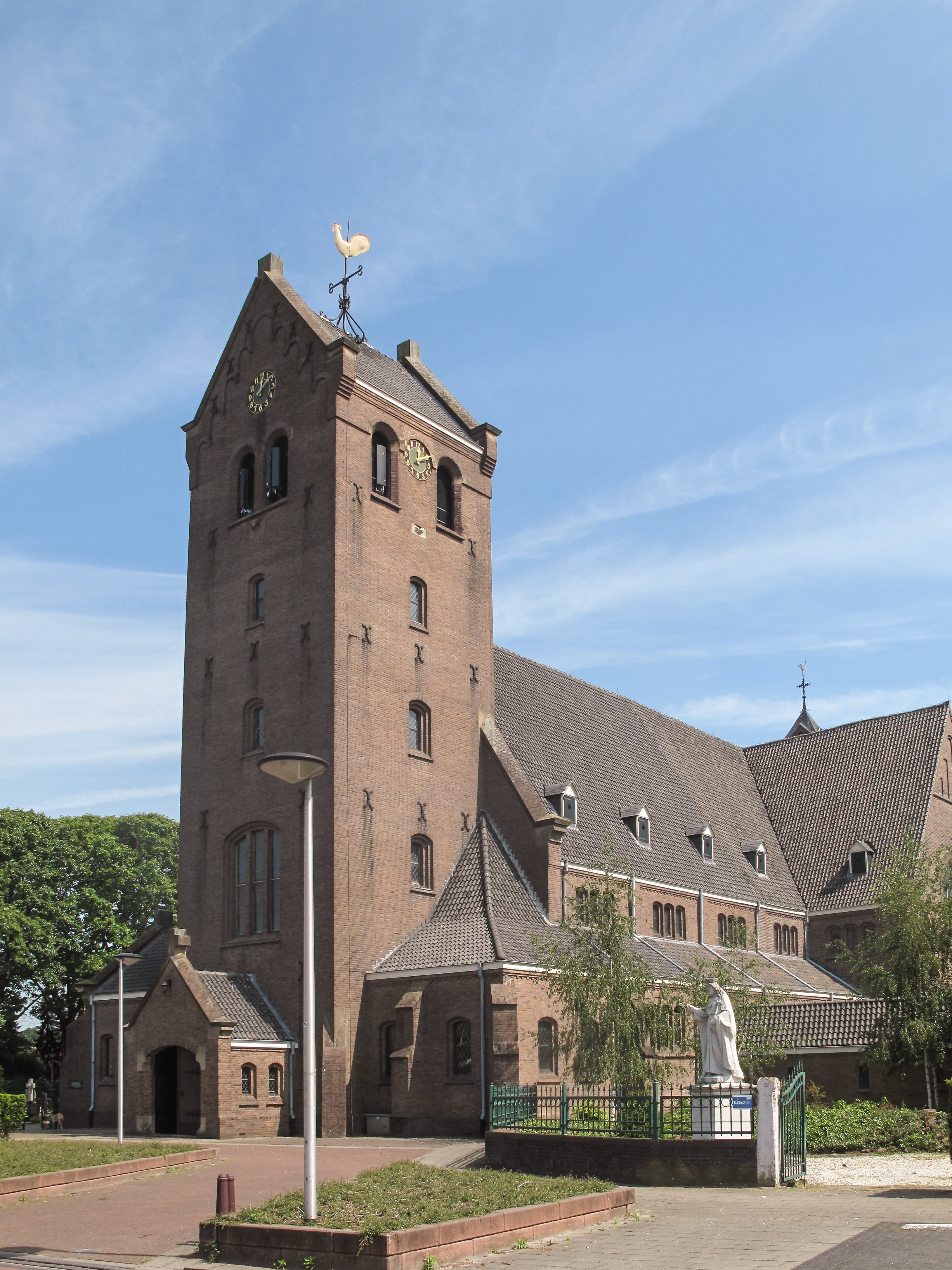 Deurne, church: de Sint Jozefkerk